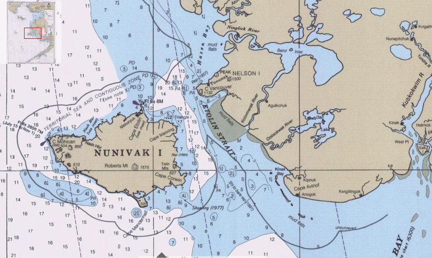 Detail of Bering Sea chart showing Etolin Strait and surroundings